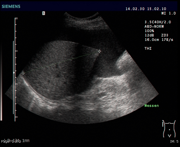 Ascites in medical ultrasonography.